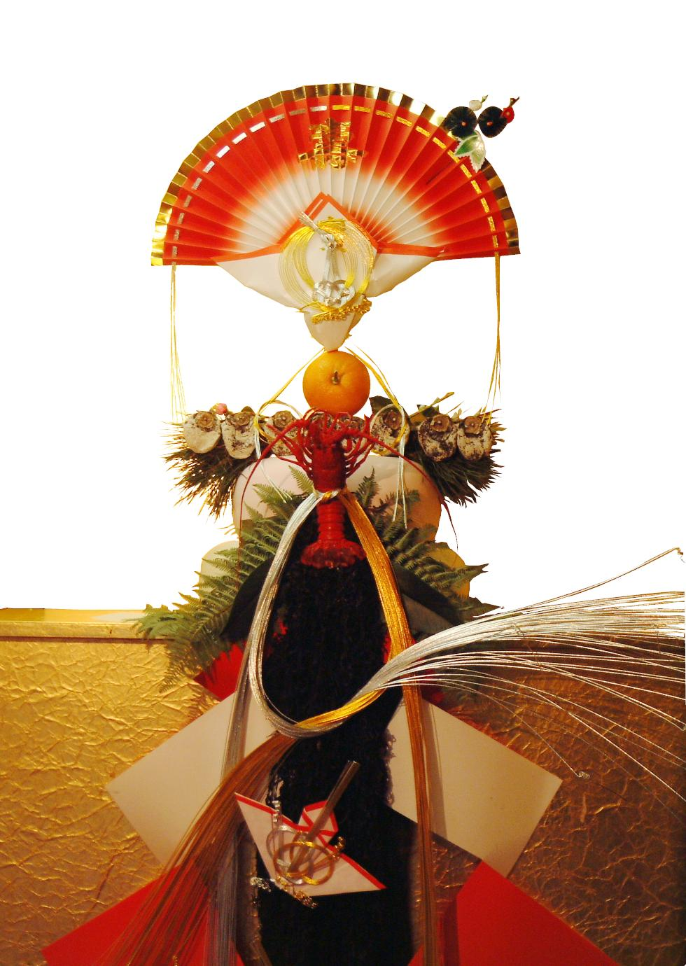 Kagami mochi, 鏡餅, Japanese traditional offering for the deities of Shinto (神道).